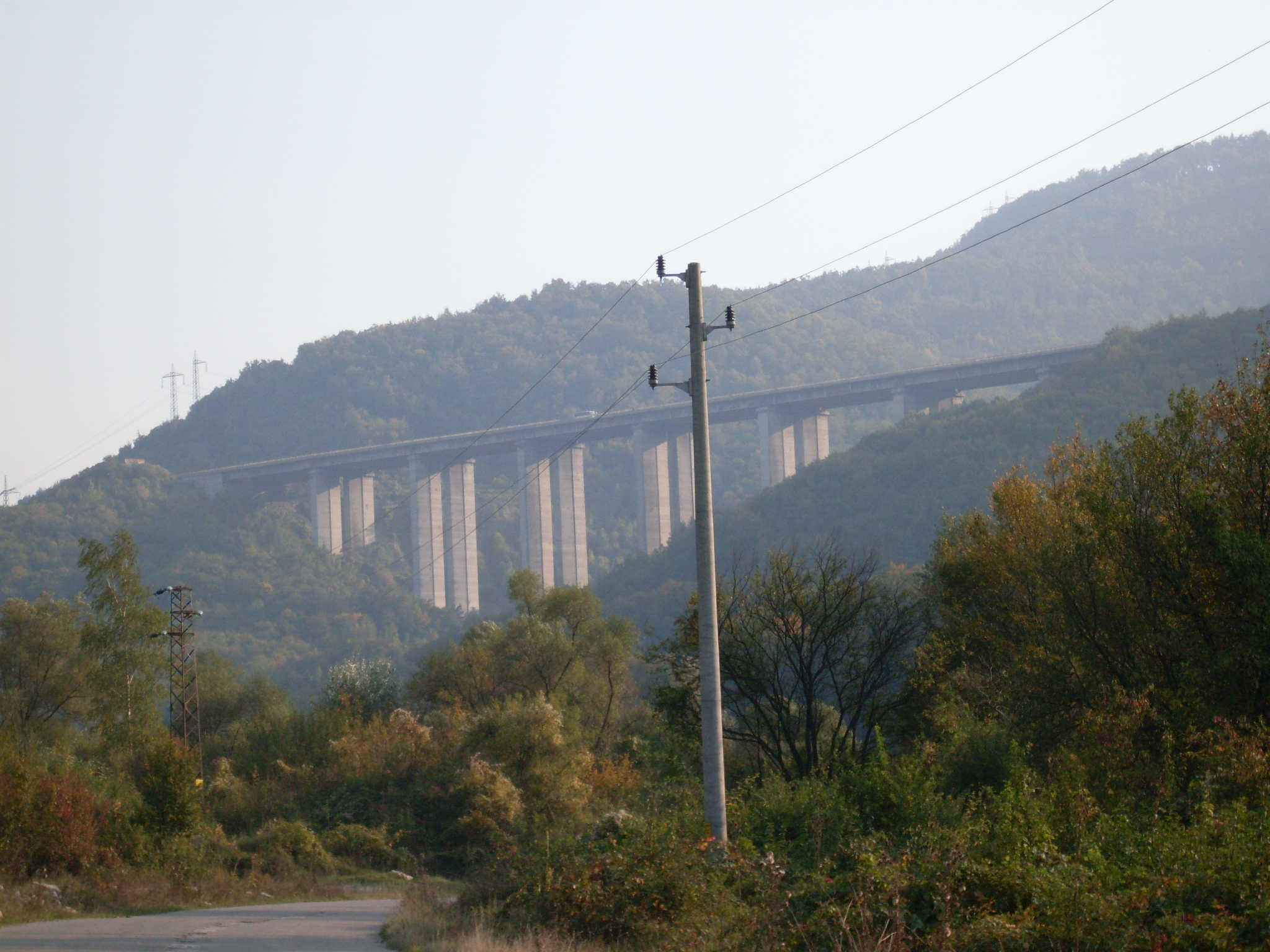 Korenishki dol viaduct